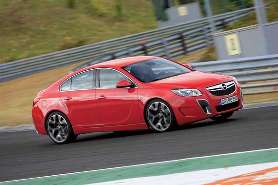 Opel Insignia.